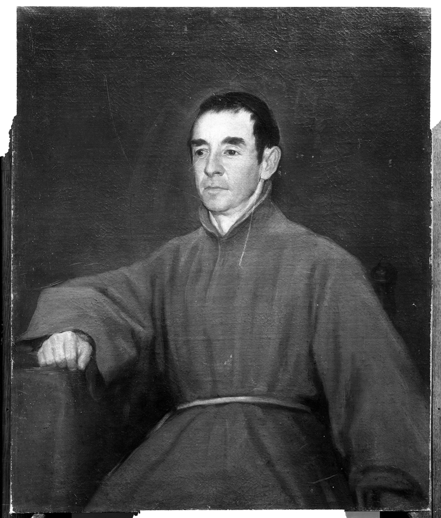 "Portrait of a Monk", painting by Francisco de Goya. It belonged to the former Kaiser Friedrich Museum in Berlin (today Bode Museum). It disappeared in 1945, at the end of World War II. It is believed that it was destroyed in the fire of the anti-aircraft defense tower in which it had been placed as protection (Flakturm Friedrichshain), but it could also have been stolen during the looting that occurred. It has been missing since then.